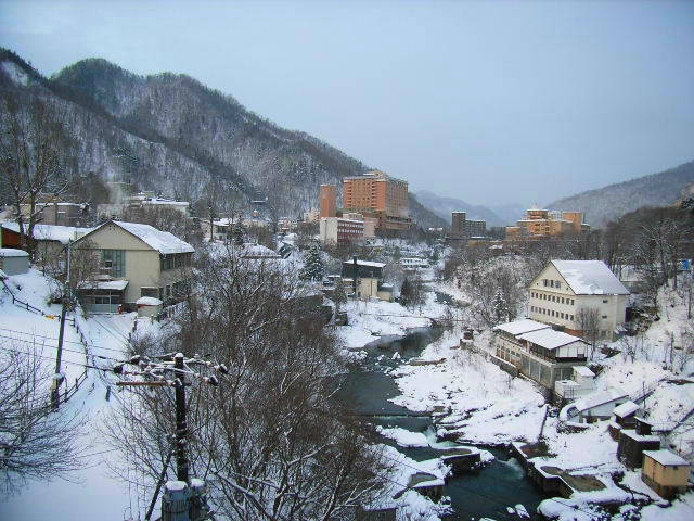 Town of the Jozankei Spa. Sapporo, Japan.